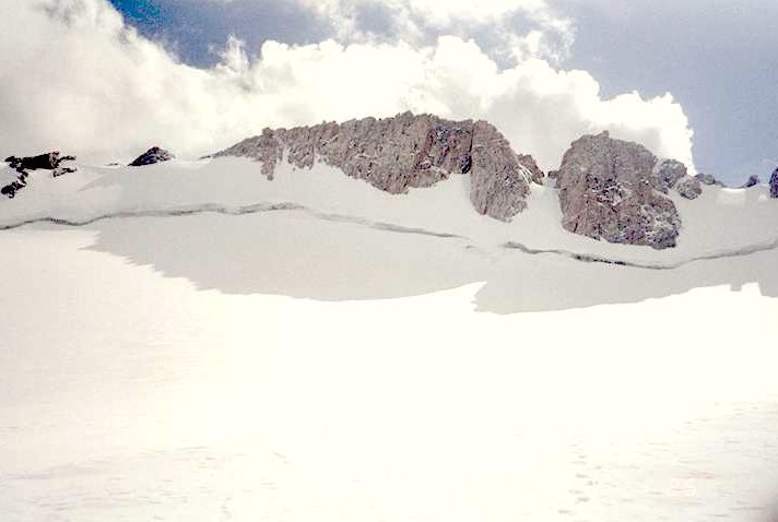 Upper Fremont Glacier is on the north slopes of Fremont Peak (Wyoming), in the Fitzpatrick Wilderness of Shoshone National Forest, Wyoming, U.S. The glacier is one the highest altitude glaicers in the American Rockies and has been one of a select few glaciers that are part of a United States Geological Survey glacial ice core study. Note the Bergschrund is clearly visible.